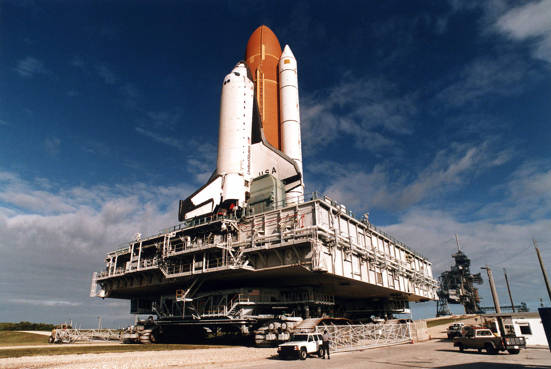 The Space Shuttle Columbia arrives at Launch Pad 39B, wrapping up a journey from the Vehicle Assembly Building that began shortly after 4 a.m. that morning.